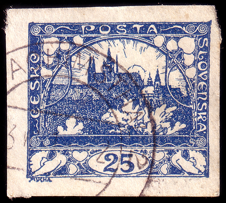 First postage stamp of Czechoslovakia, Hradčany of Prague, 25 haléřů, 1918